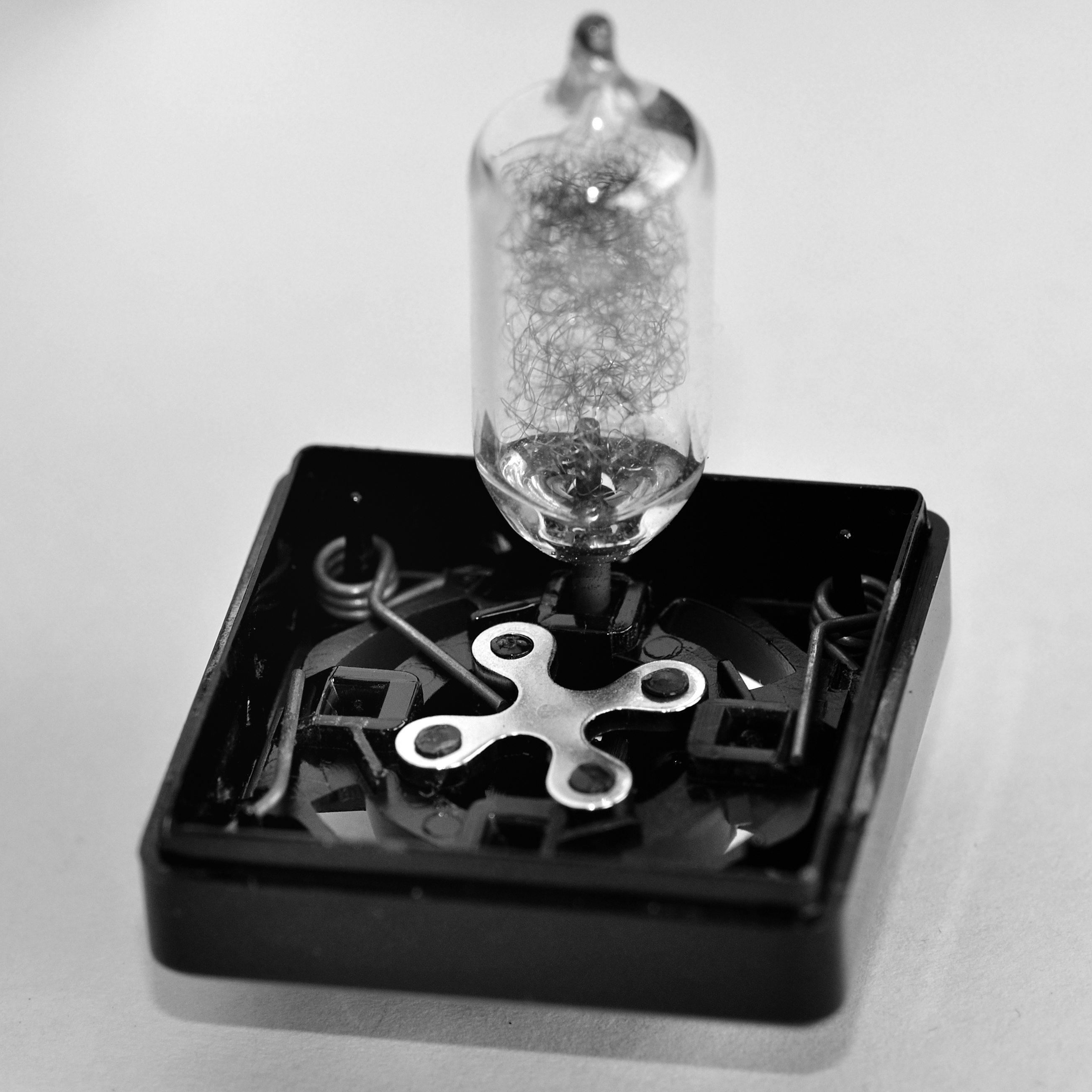 Trigger mechanism of a Magicube from Osram. The tensioned wire is pushed up from below and then strikes against the base of the flash bulb.